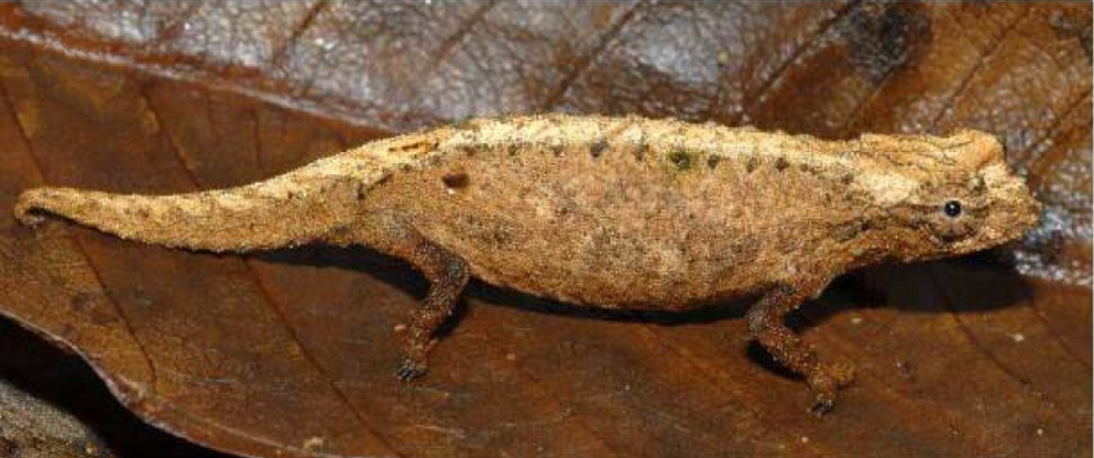 Male of Brookesia desperata.